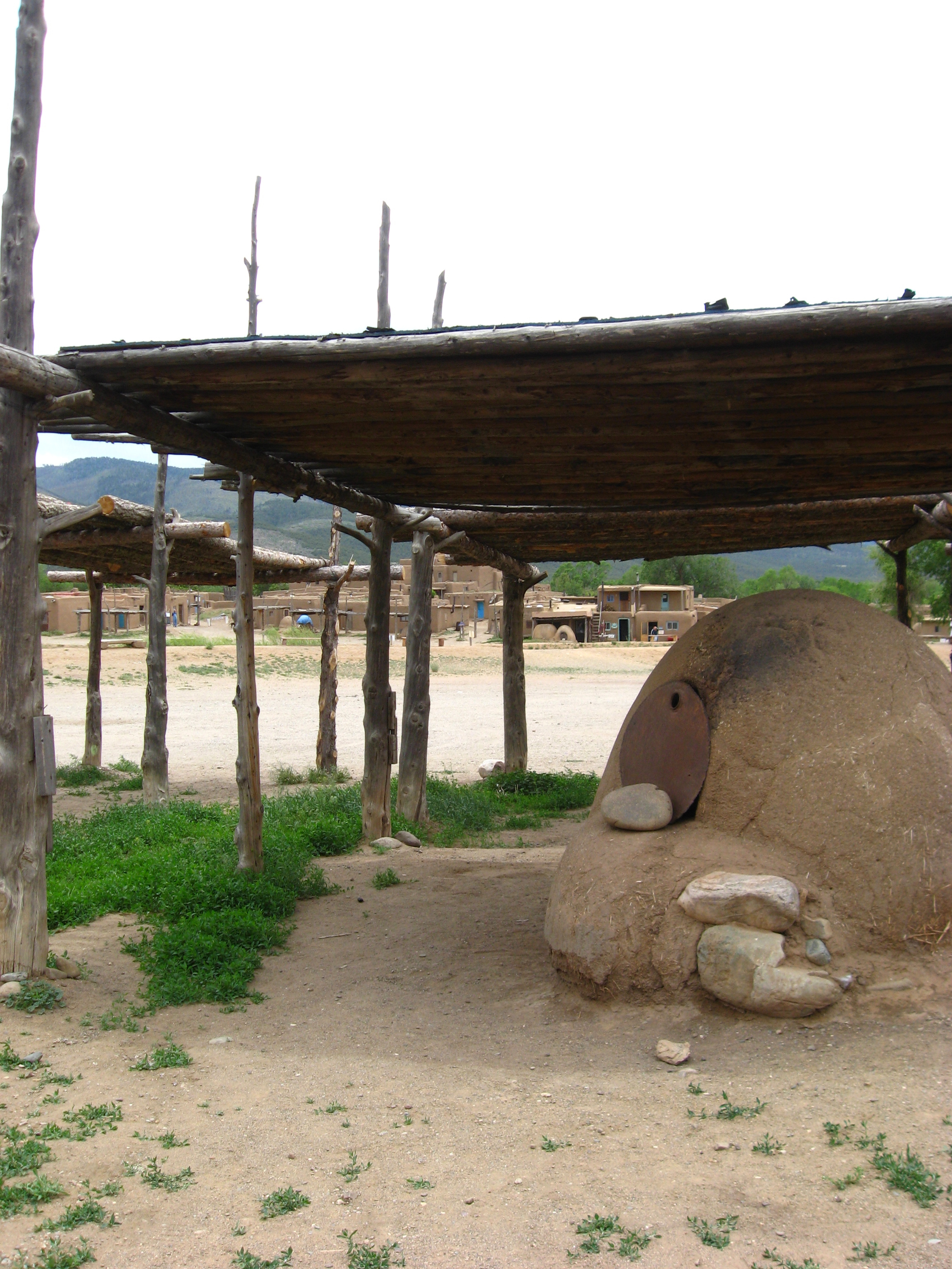 The women of the Taos Pueblo often bake Native American bread in these adobe ovens and offer them for sale to tourists. Taos, New Mexico.